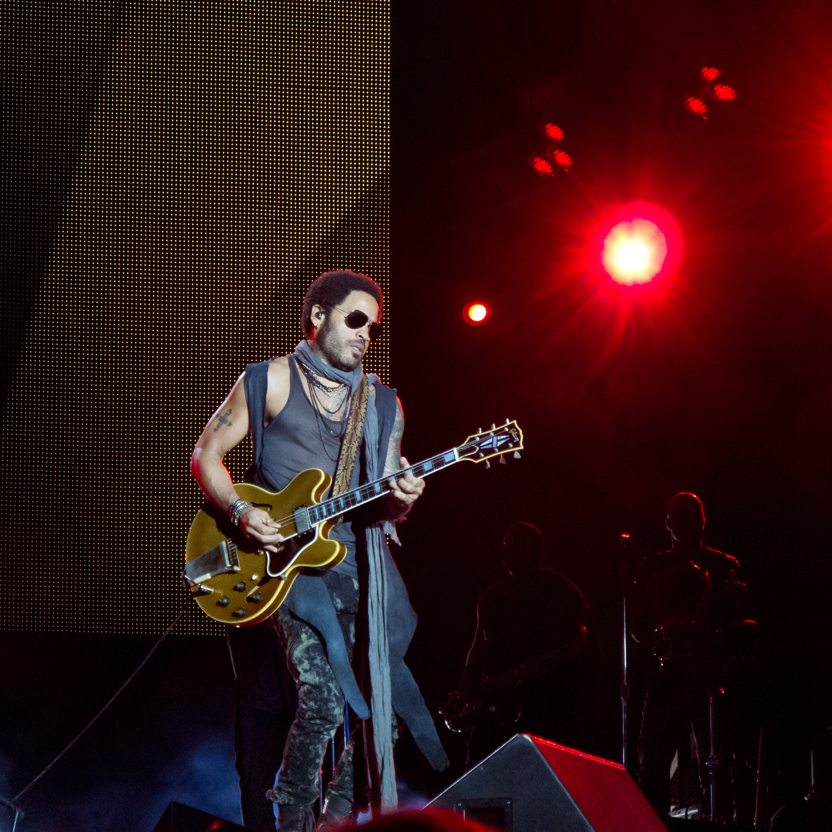 Lenny Kravitz live in Rock in Rio Madrid 2012.